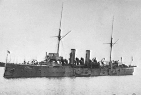 AWM caption : "TASMANIA, C. 1902. THIRD CLASS PROTECTED CRUISER HMS TAURANGA, FORMERLY HMS PHOENIX, OF THE AUSTRALIAN AUXILIARY SQUADRON OF THE ROYAL NAVY, SHOWING HER PORT FORWARD VIEW. TAURANGA WAS ONE OF FIVE CRUISERS OF THE RN AUXILIARY SQUADRON MADE AVAILABLE FOR THE PROTECTION OF AUSTRALIA FROM 1891 TO 1906. AFTER RETURNING TO ENGLAND TAURANGA WAS SOLD ON 1906-07-10 TO BE BROKEN UP FOR SCRAP."